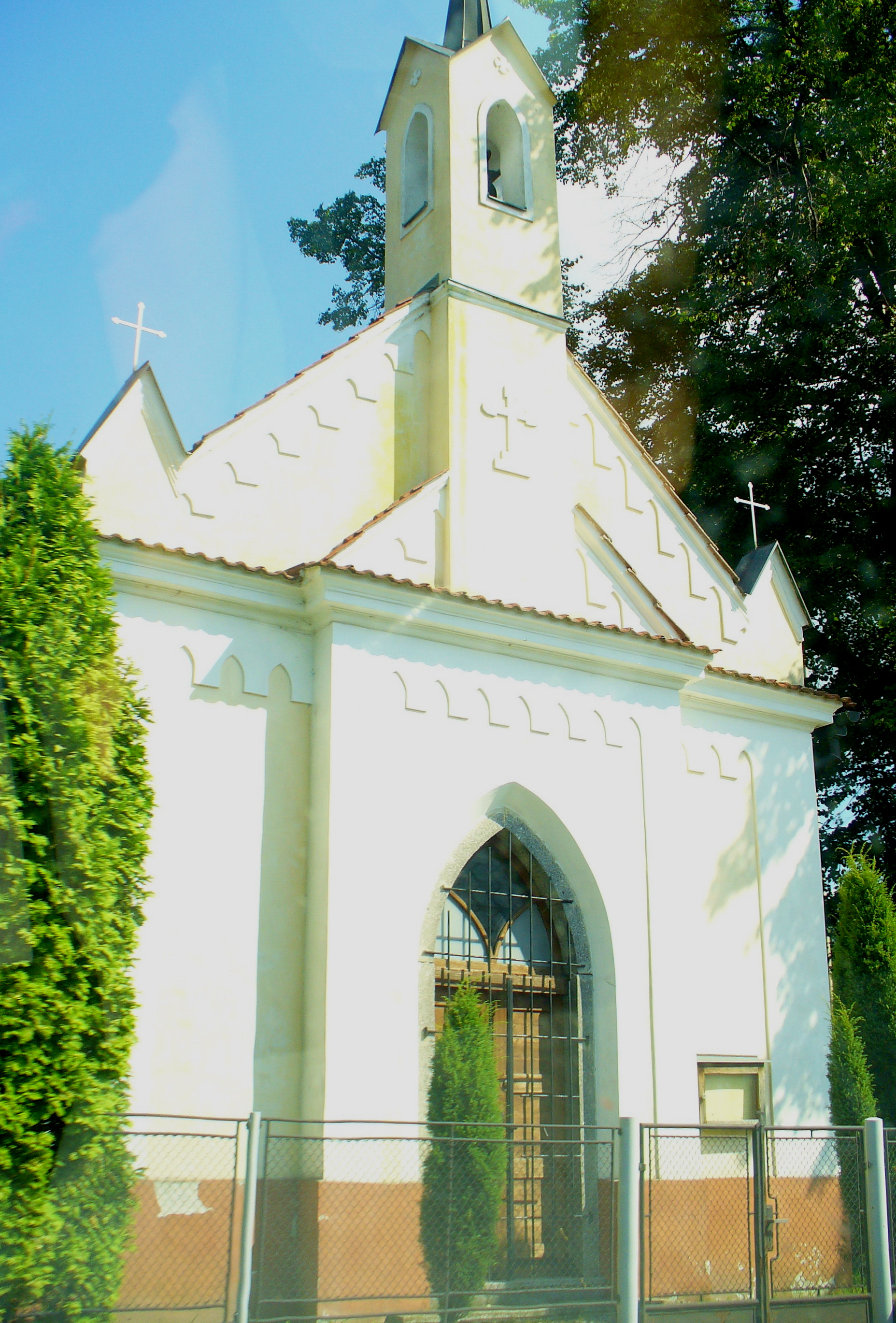 Chapel in Dmýštice village